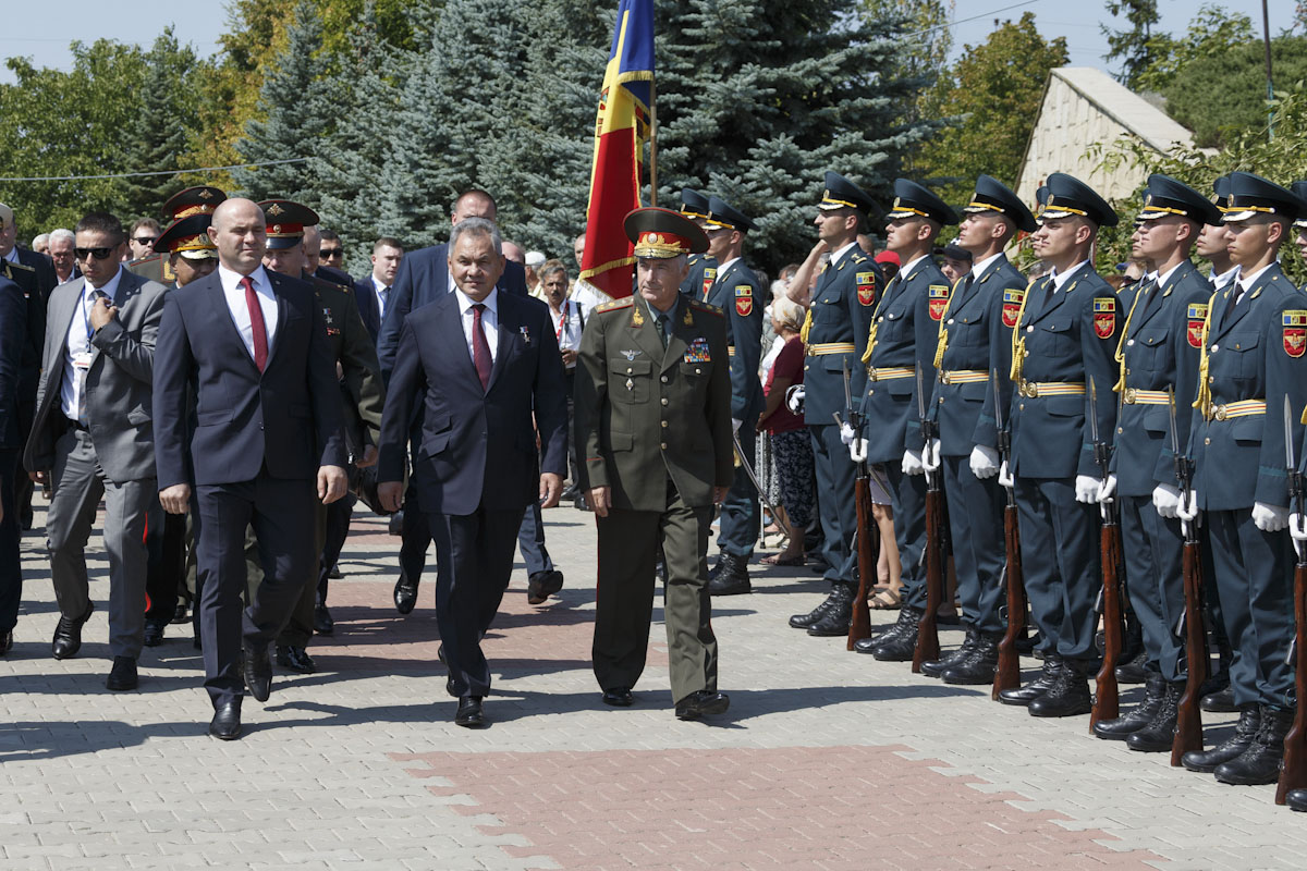 Министр обороны России генерал армии Сергей Шойгу высоко оценивает важность миротворческой операции в Приднестровье